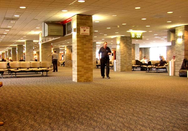 Concourse B in Memphis International Airport, Memphis, Tennessee